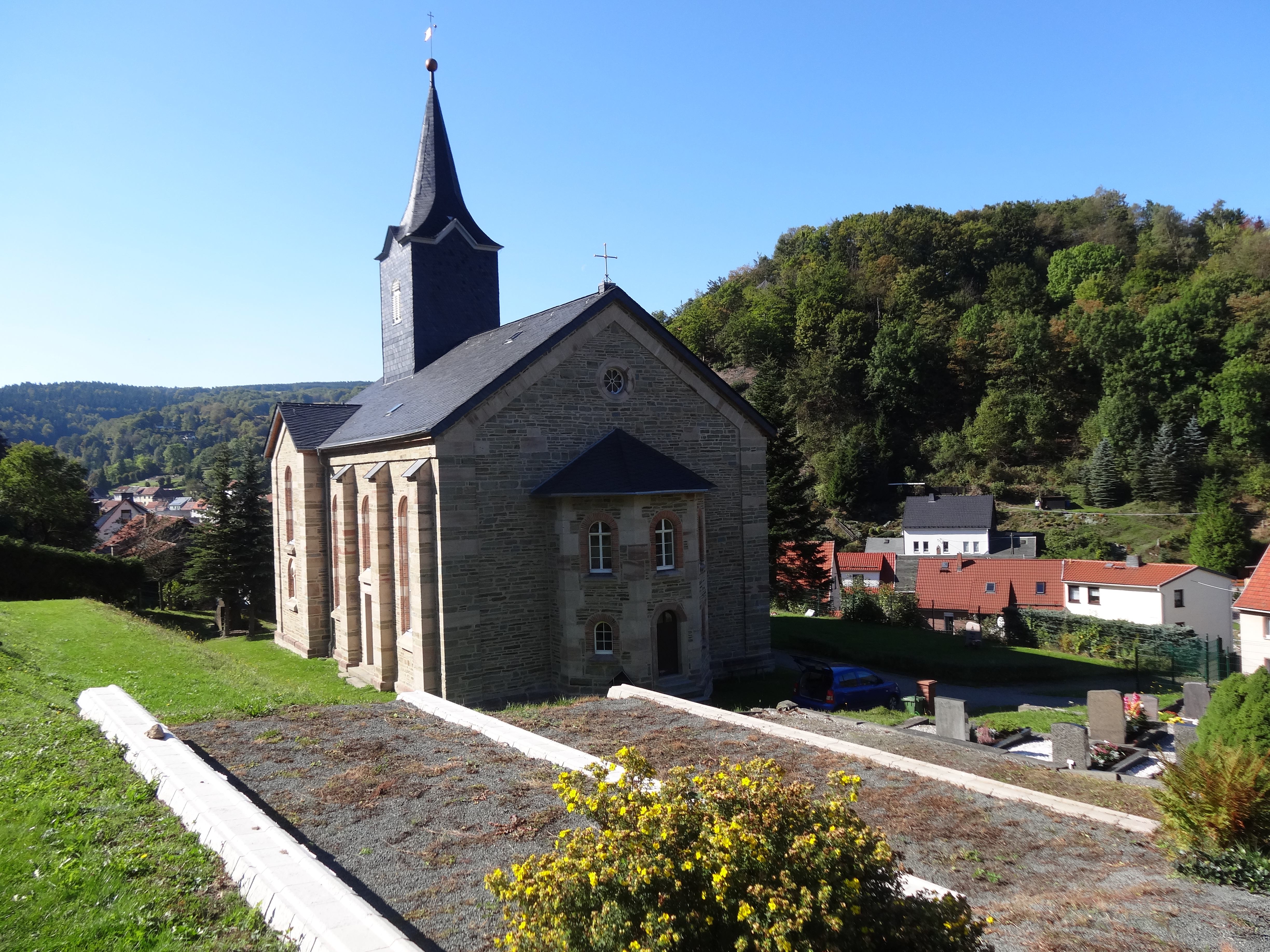 Gotha church in Kleinschmalkalden, Thuringia, Germany